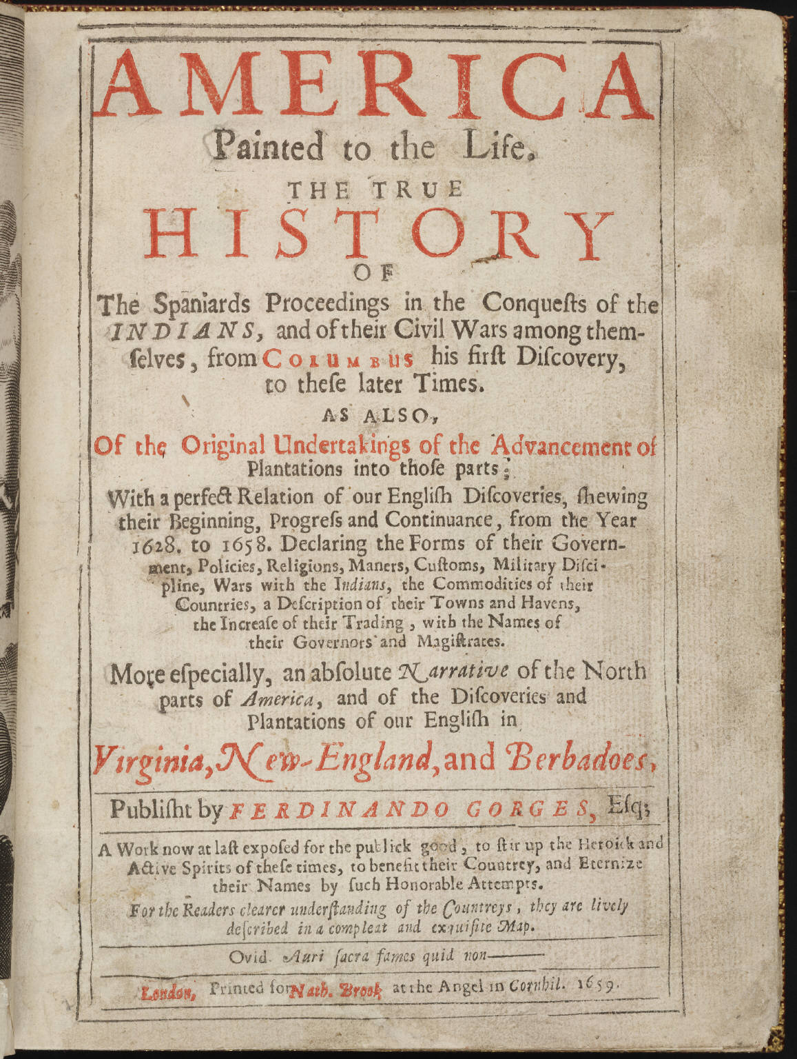 "America Painted to the Life," published by Ferdinando Gorges, London, 1659. (Ferdinando Gorges, Esq., was the grandson of English colonial entrepreneur and founder of the state of Maine.) Title page. Courtesy of the Beinecke Rare Book & Manuscript Library, Yale University.[1]